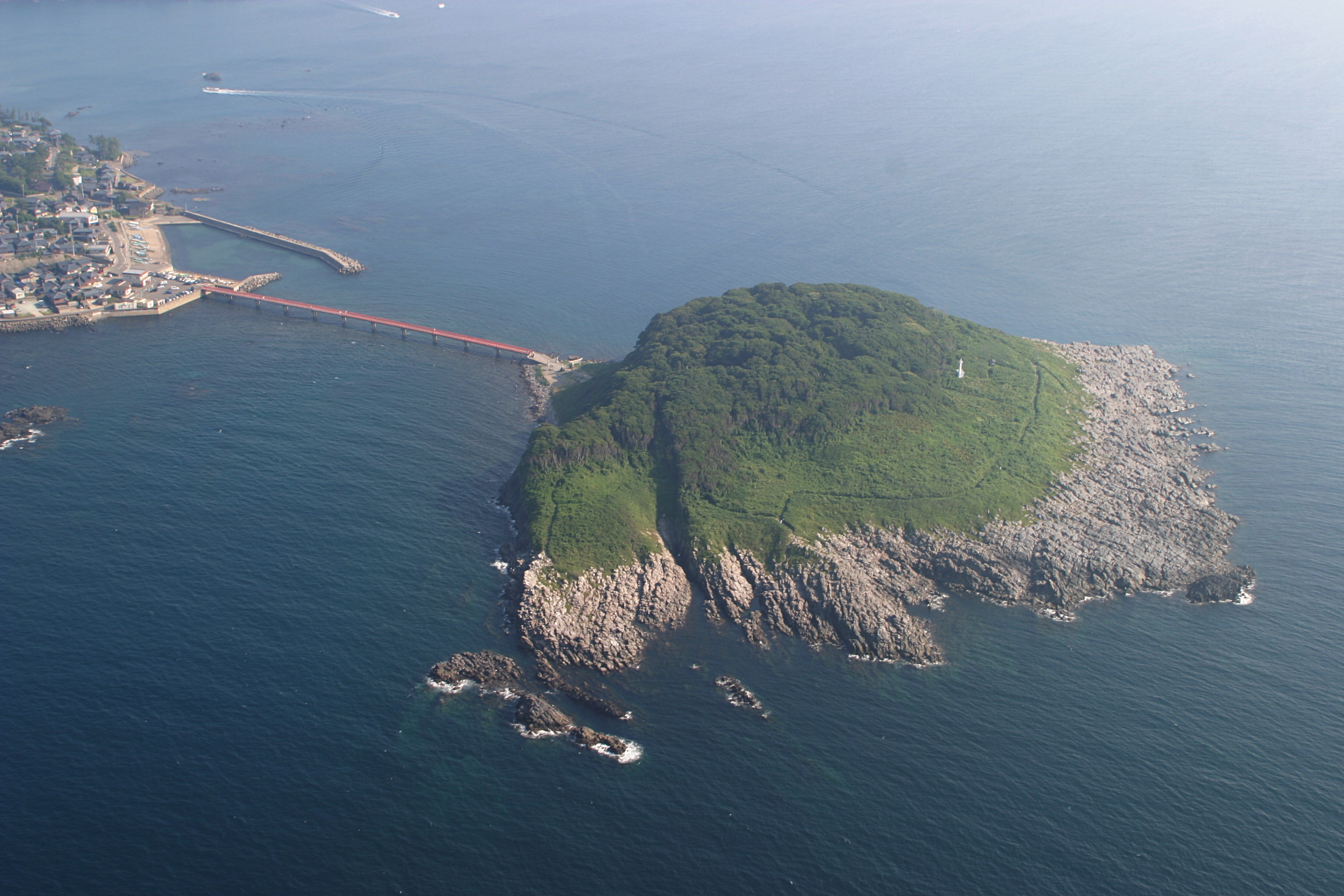 Oshima.